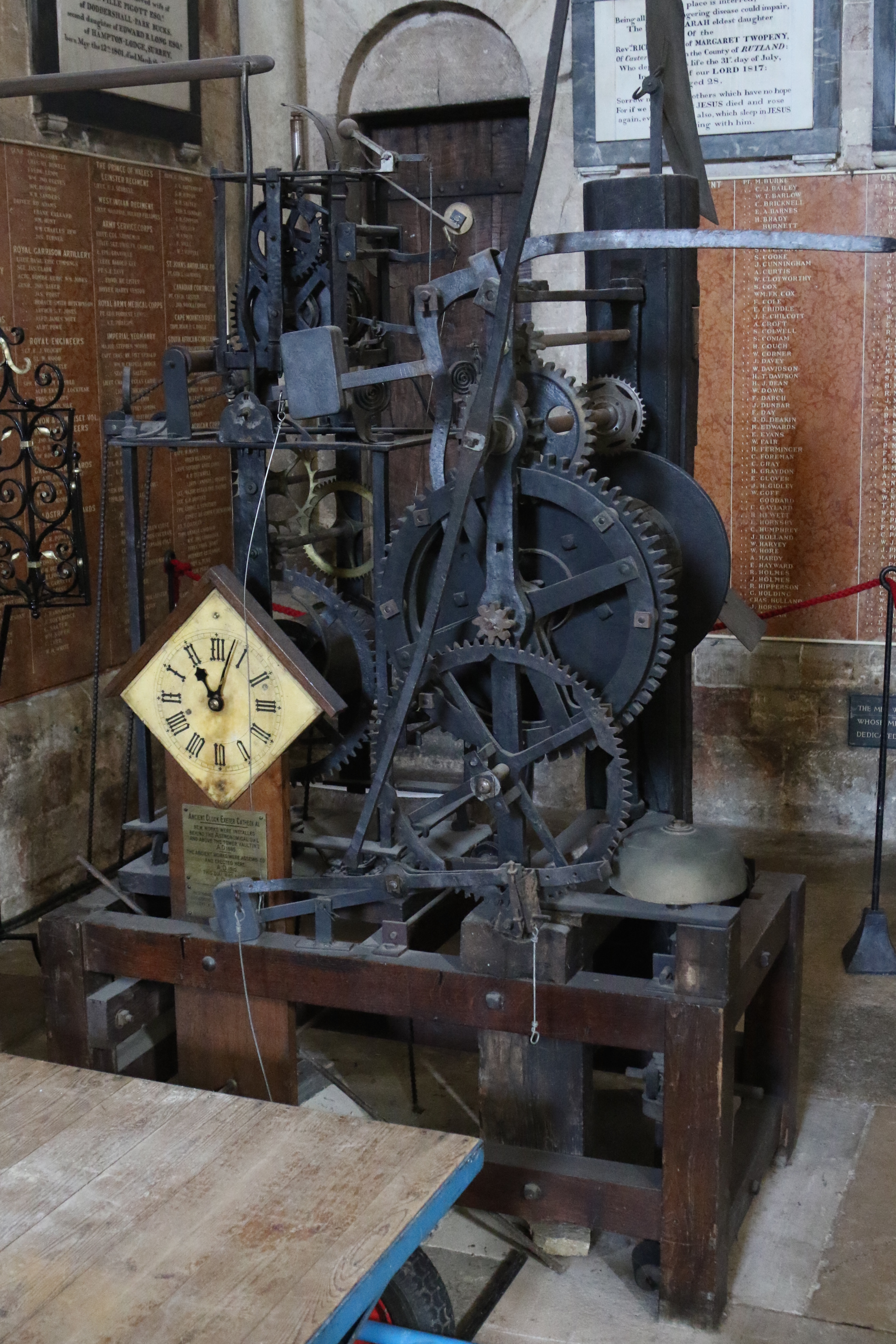 This mechanism was replaced by new works which were installed behind the astronomical dial and above the tower vaulting in 1885. This mechanism was restored and erected in its current position in 1910 by John James Hall. The dial was added in the 1930s.